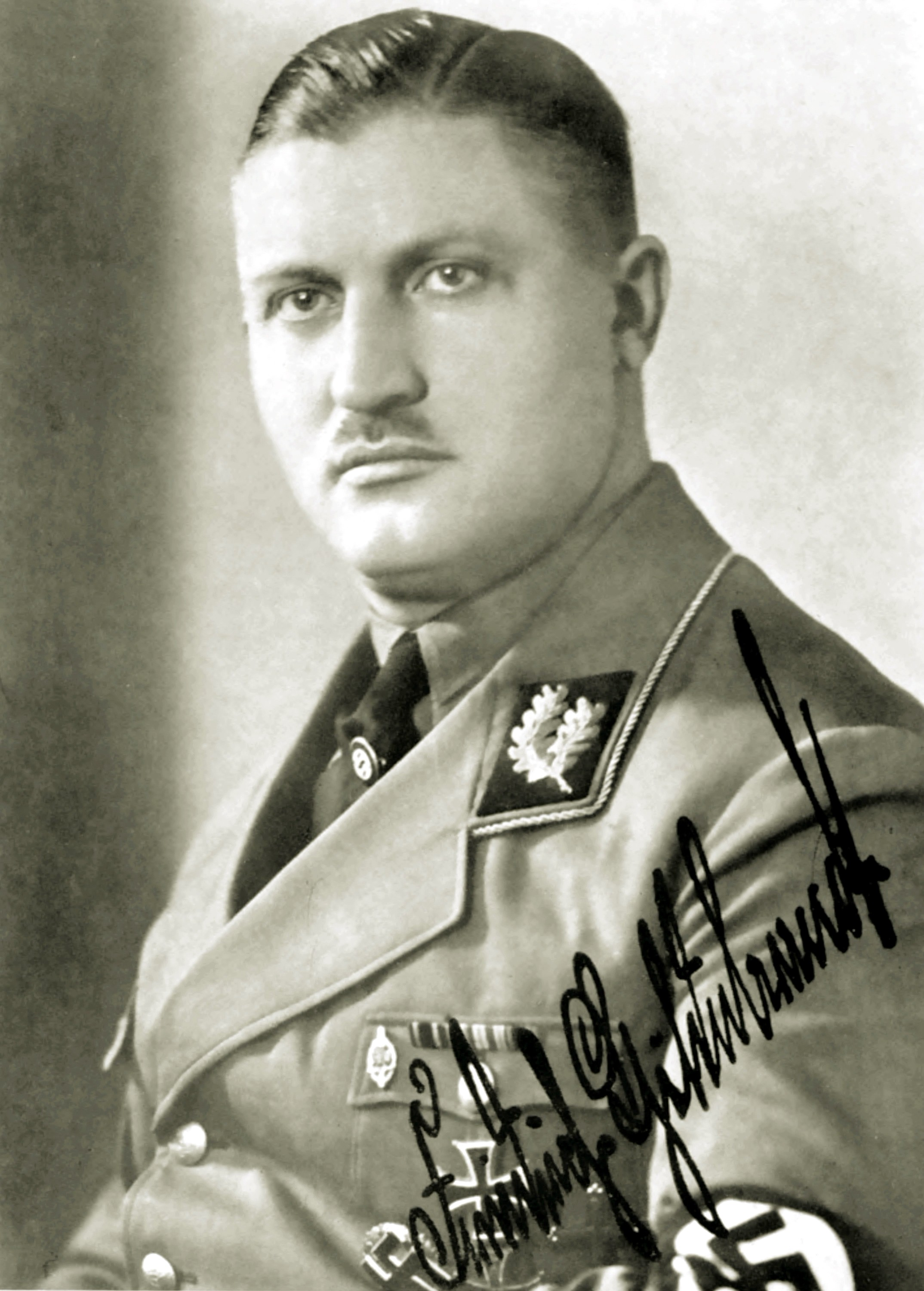 Gauleiter Friedrich Hildebrandt